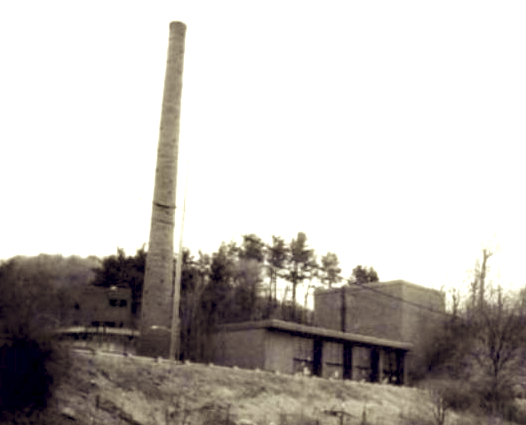 A view of Dixmont's boiler building, water treatment plant, reservoir, and smoke stack from Ohio River Boulevard.